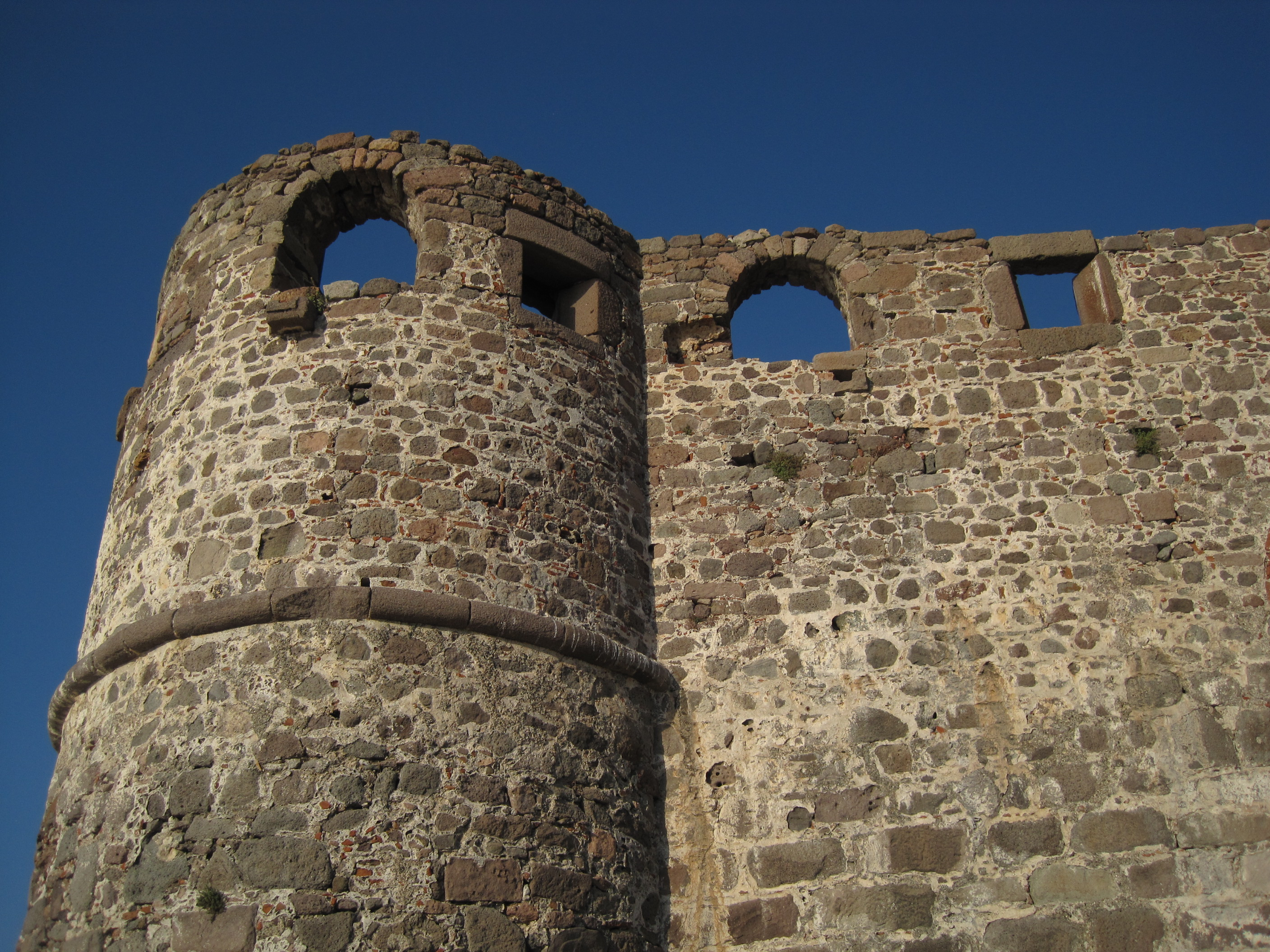 Mithymna (Molivos) Castle wall, Mithymna, Lesbos, Greece